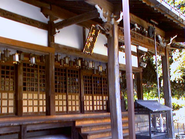 A Picture at Heirinji, in Takarazuka, Japan.